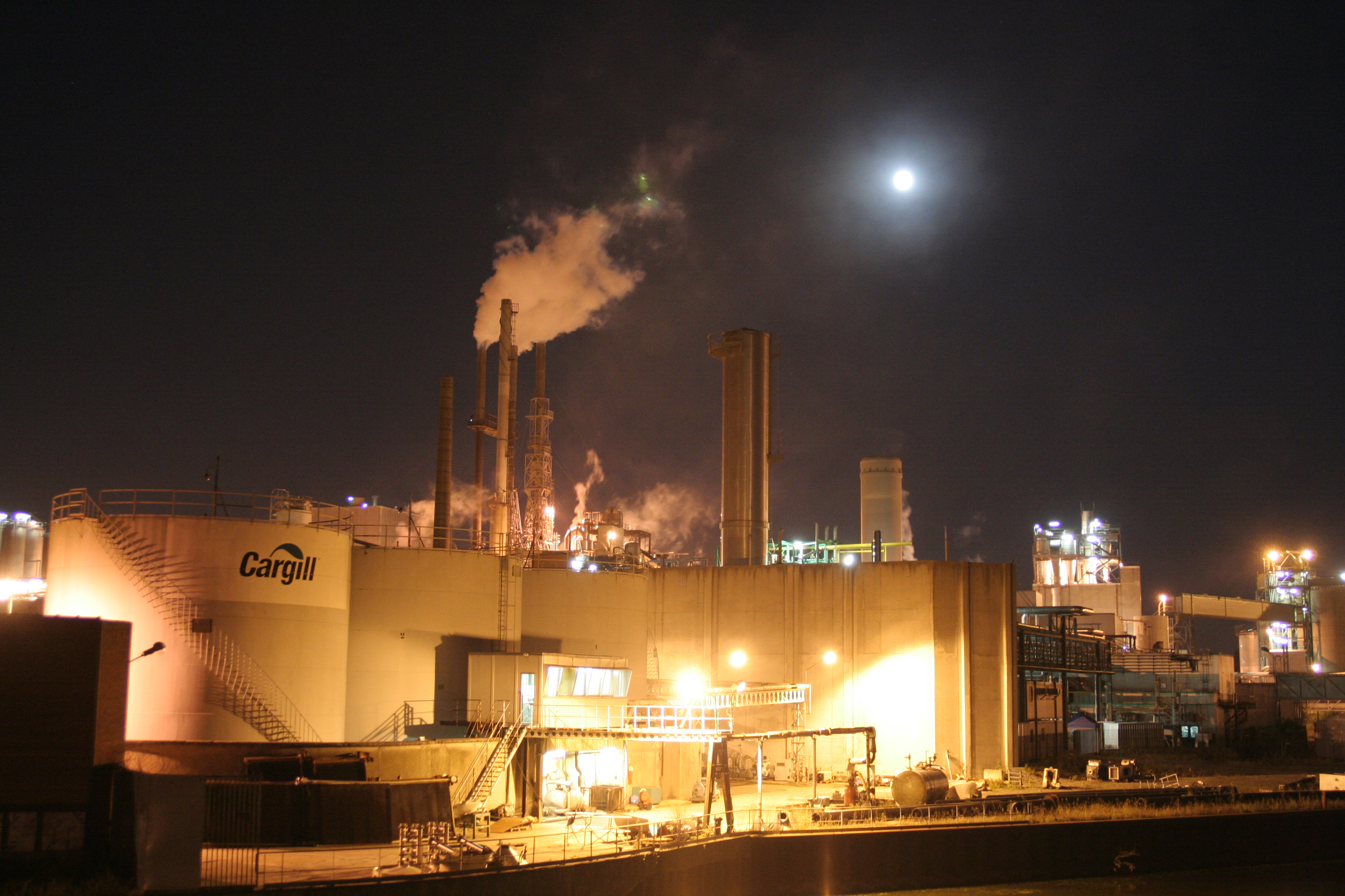 Cargill factory of Haubourdin, France.